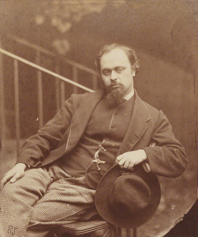 Portrait of Dante Gabriel Rossetti: albumen print. Original size 5 3/4 in. x 4 3/4 in. (146 mm x 121 mm) NPG P29. This photograph was reproduced as the frontispiece of: Rossetti, William Michael (1898) Dante Gabriel Rossetti as Designer and Writer, London: Cassell and Company Retrieved on 29 November 2010.